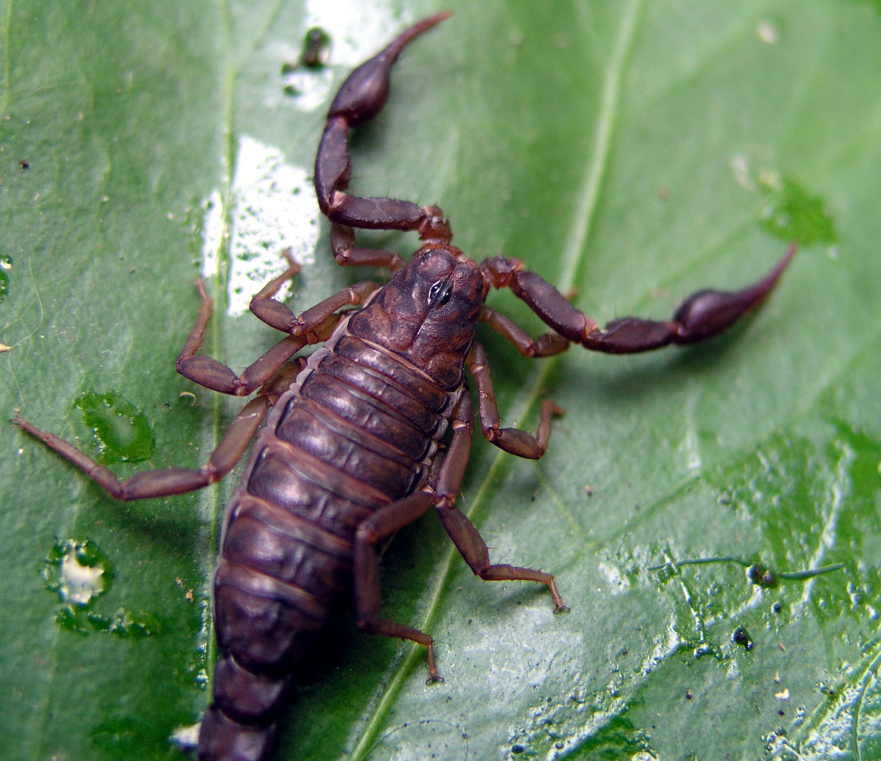 Scorpion.